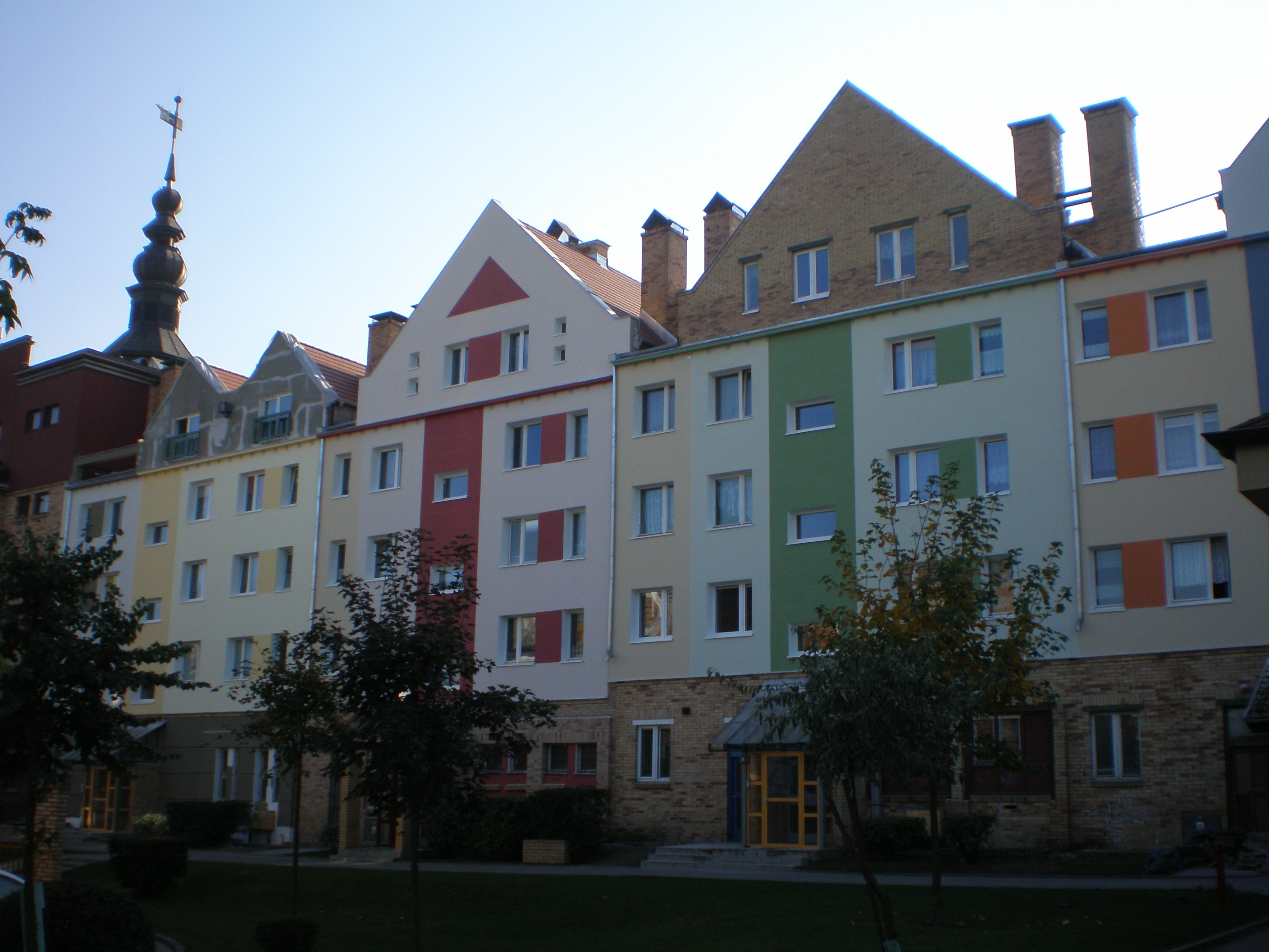 The Murowana Goślina city.